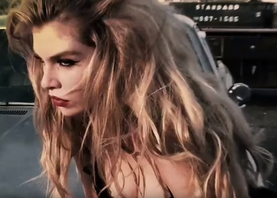 Screenshot of British model Stella Maxwell as "Whiplash" in Day 14 of LOVE Magazine Advent 2015, filmed by Gregory Harris.